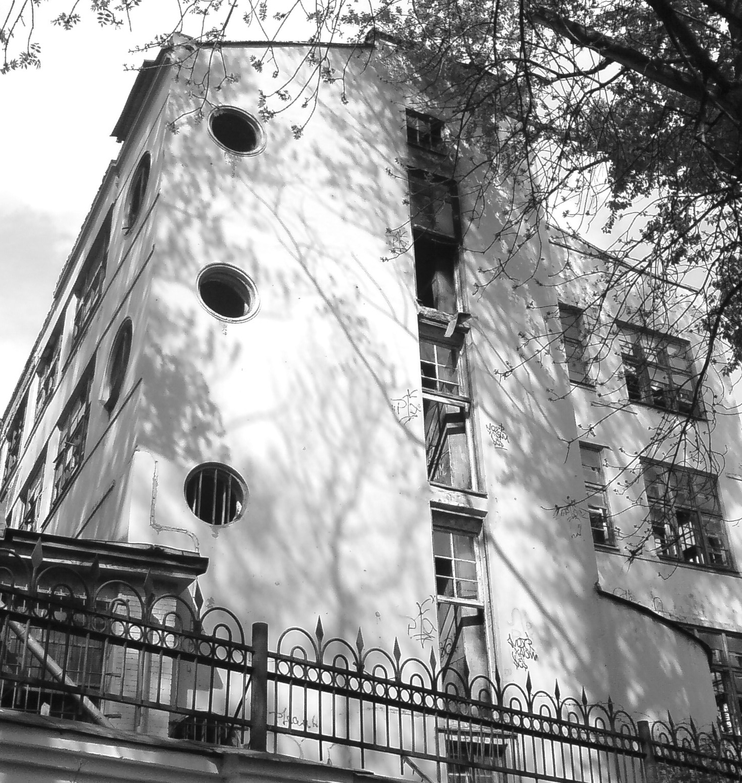 The print shop "OGONYOK" designed by El Lissitzky, located at 55°46′38″N 37°36′39″E / 55.777277°N 37.610828°E / 55.777277; 37.610828 17, 1st Samotechny Lane. It is Lissitzky's sole tangible work of architecture. It was commissioned in 1928 by Ogonyok magazine to be used as a print shop. In June 2007 the independent Russky Avangard foundation filed a request to list the building on the heritage register. In September 2007 the city commission (Moskomnasledie) approved the request and passed it to the city government for a final approval, which did not happen. In October 2008, the abandoned building was badly damaged by fire.